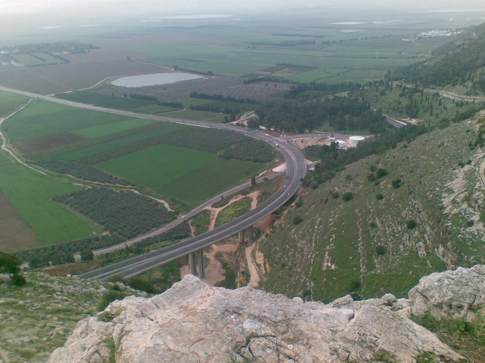 A new road between Nazareth and Affula, Transport in Israel